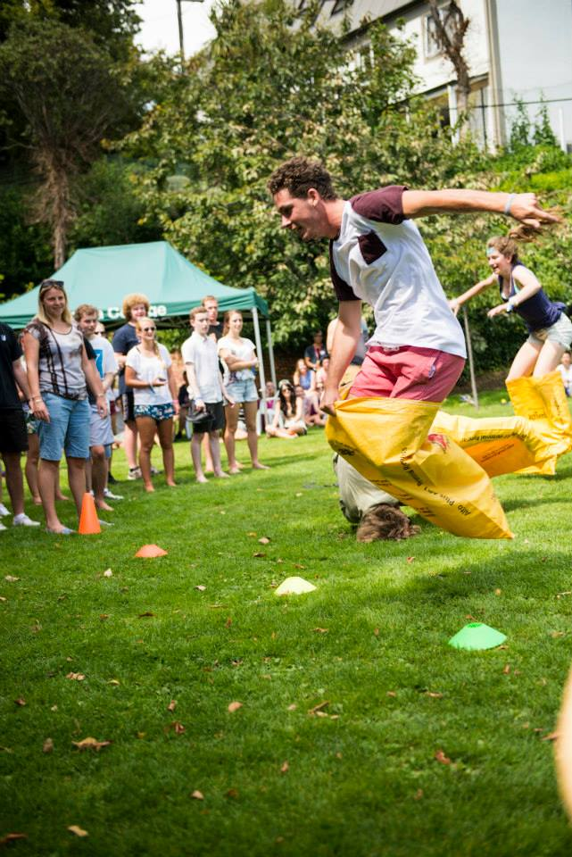 Dave Borrie triumphs in a sack race in the 2014 Arana Carnival